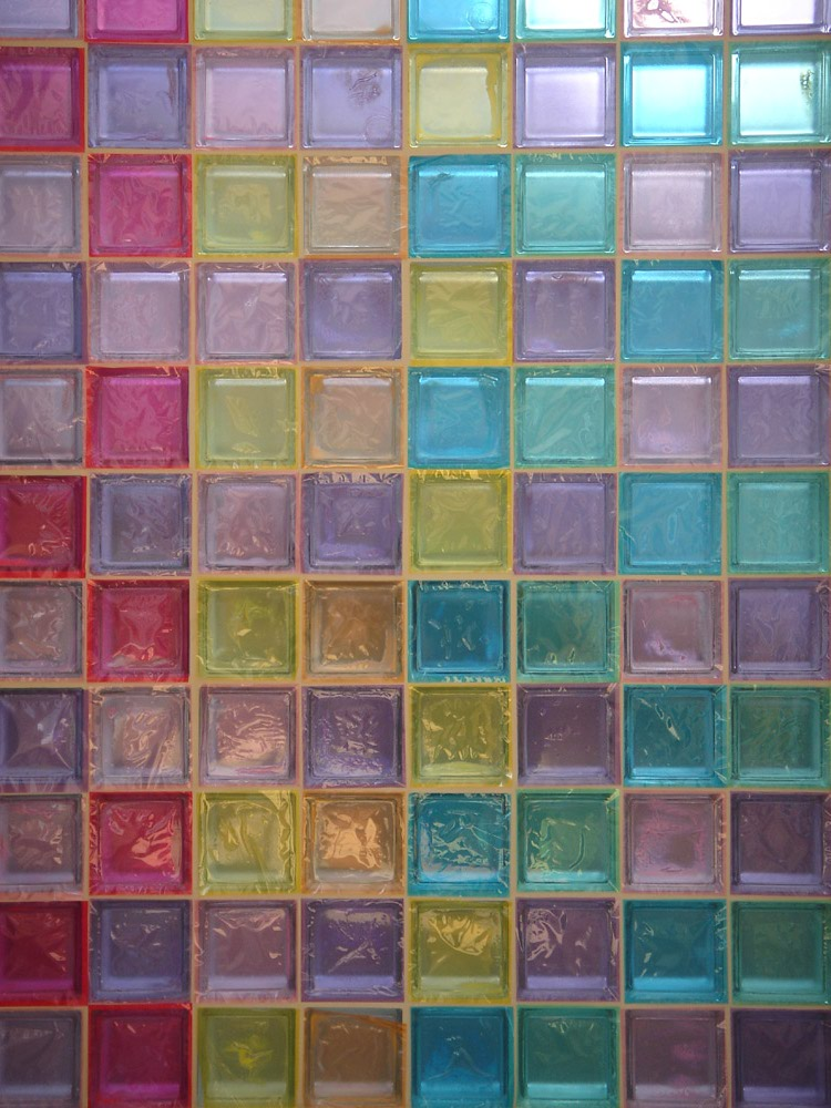 Coloured glassbrick